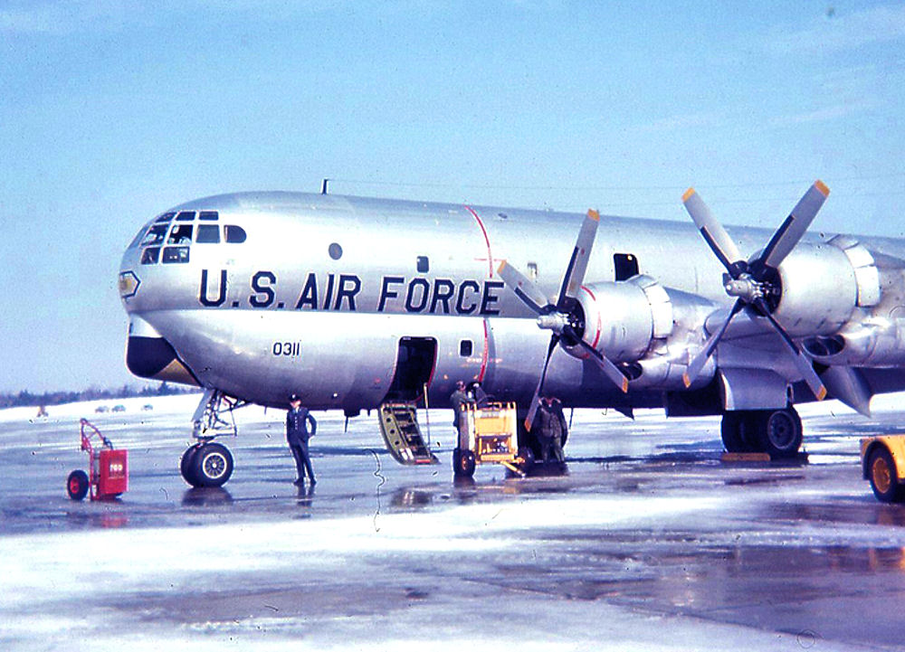 133d Air Transport Squadron - Boeing C-97G Stratofreighter 53-0311 Retired to MASDC Apr 25, 1968